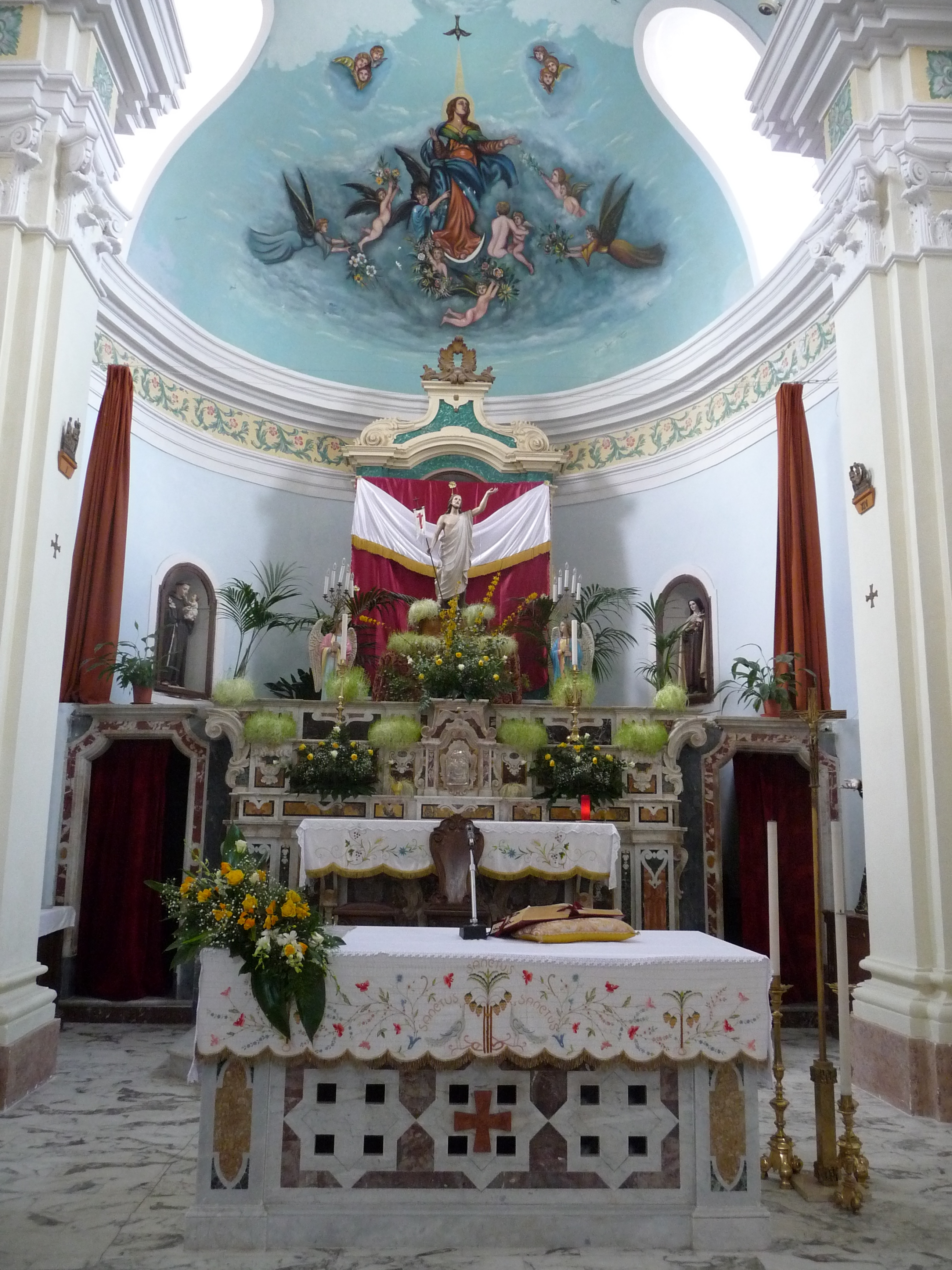 Church of_santa_Maria_Assunta_in Pazzano